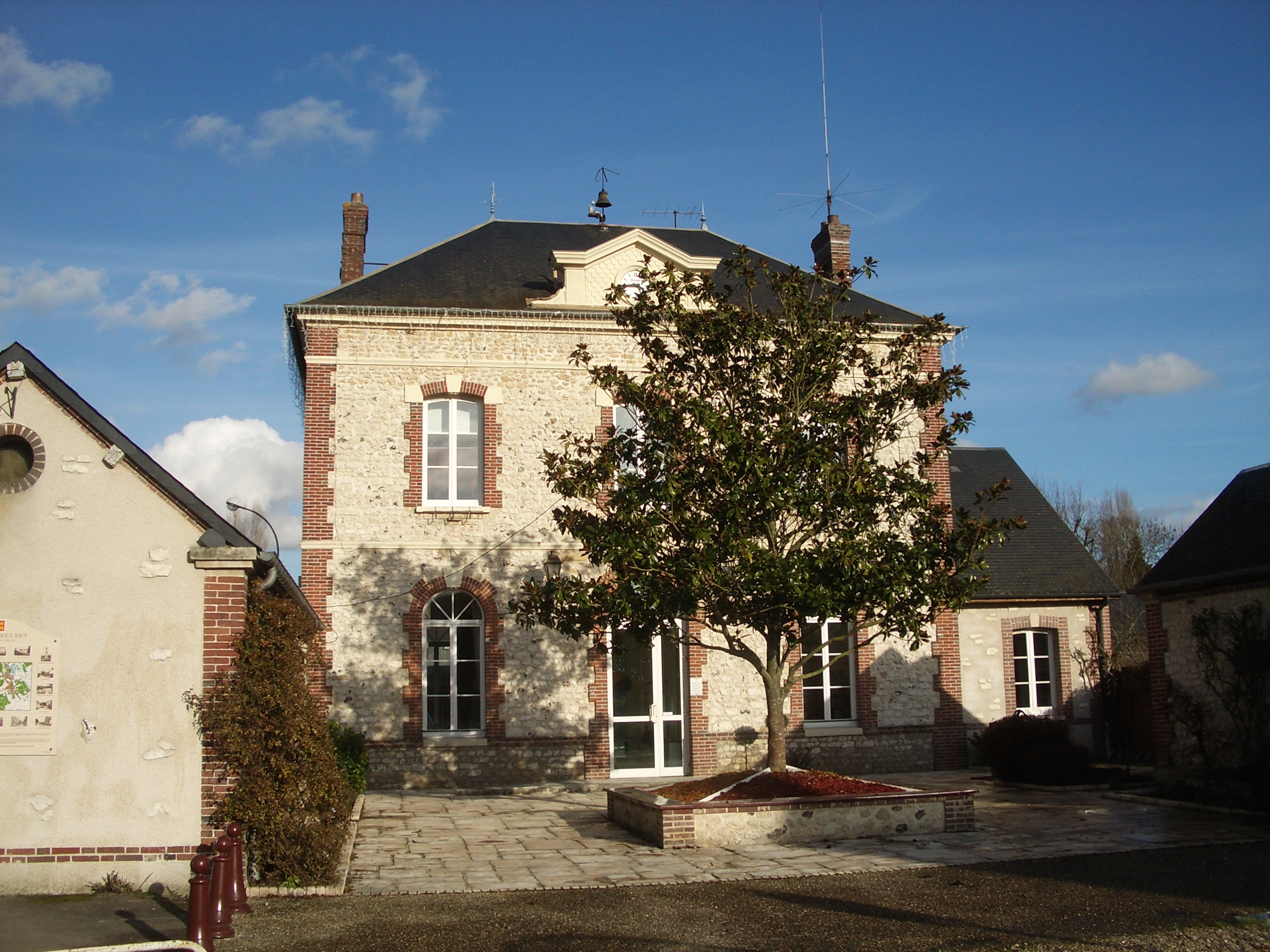 Fontaine-sour-Jouy city hall